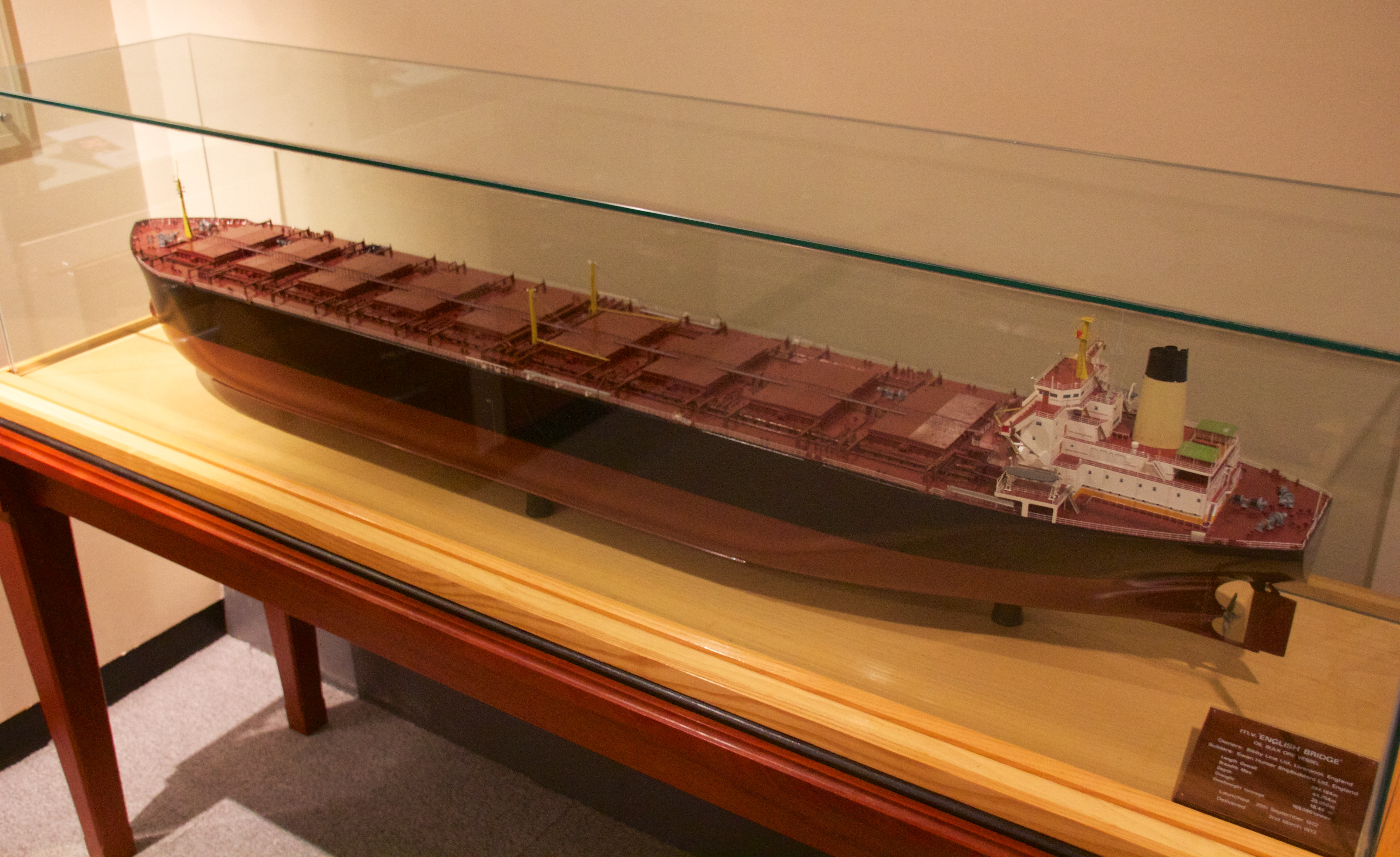 Model of the M.V. English Bridge. On display at the Merseyside Maritime Museum.